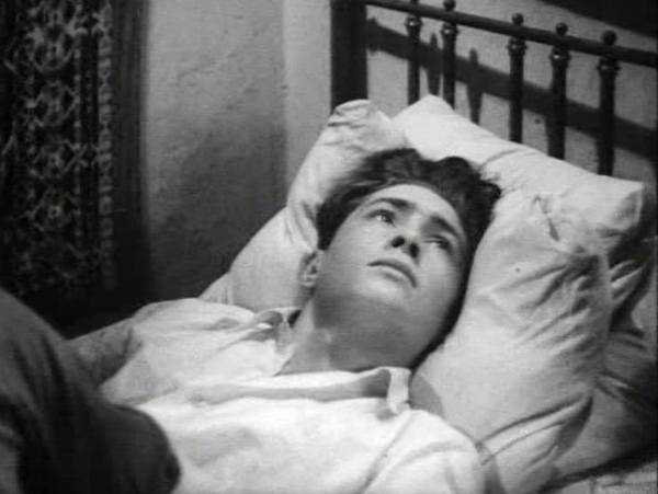 Vyacheslav Tikhonov as Vladimir Osmukhin in The Young Guard (1948)